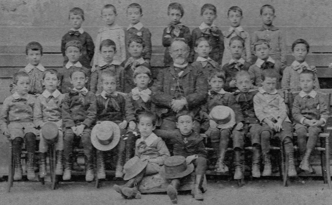 A class of firstgraders of Samson-Raphael-Hirsch-Schule in Frankfurt am Main, Hesse, Germany with their teacher in autumn 1887. At that time the school was still named "Realschule mit Lyzeum der Israelitischen Religionsgesellschaft"). The third boy from the right in the upper row is named as Max Zuntz, who later held a doctorate and became a well-known lawyer in Frankfurt am Main.